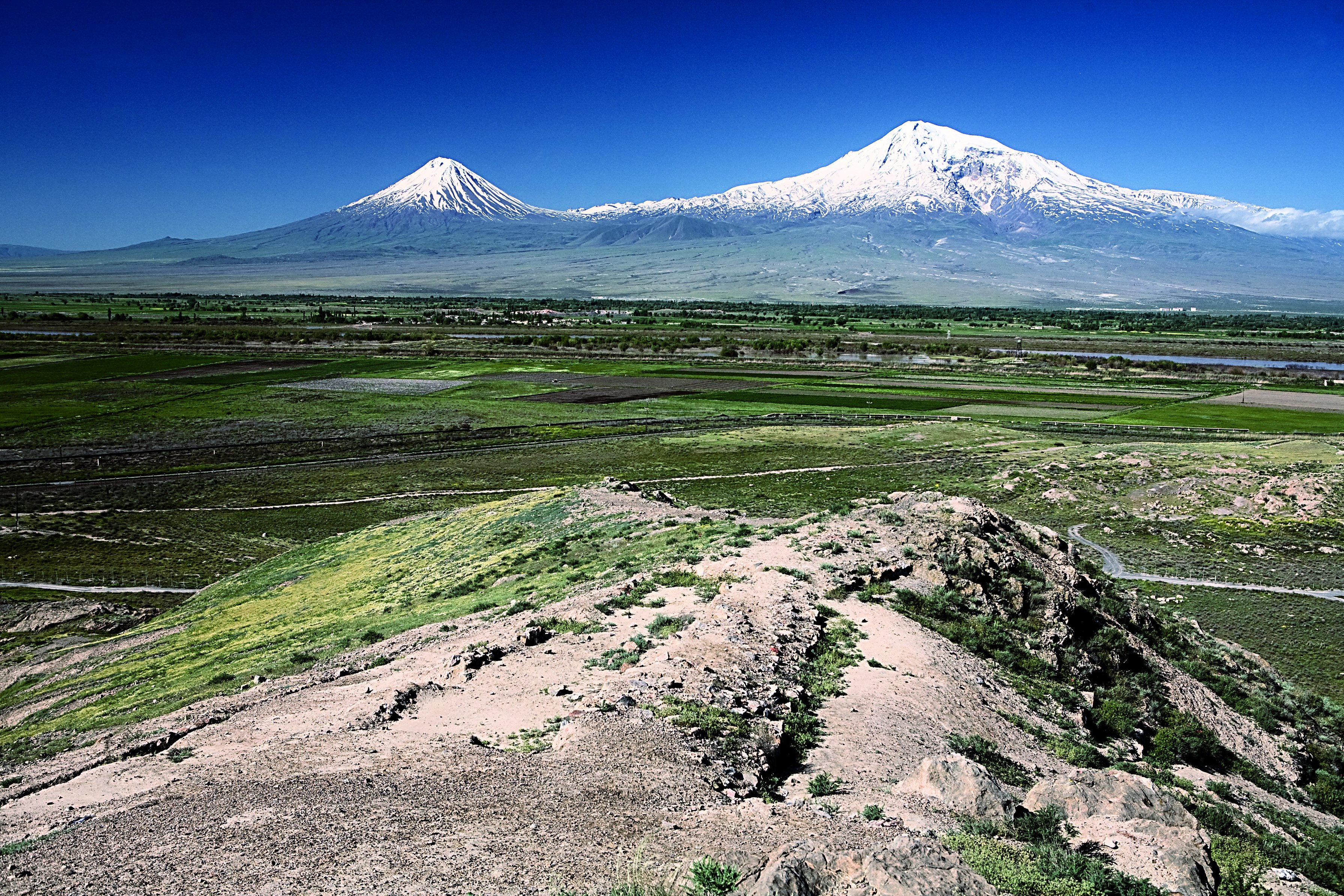 Double-peaked Ararat